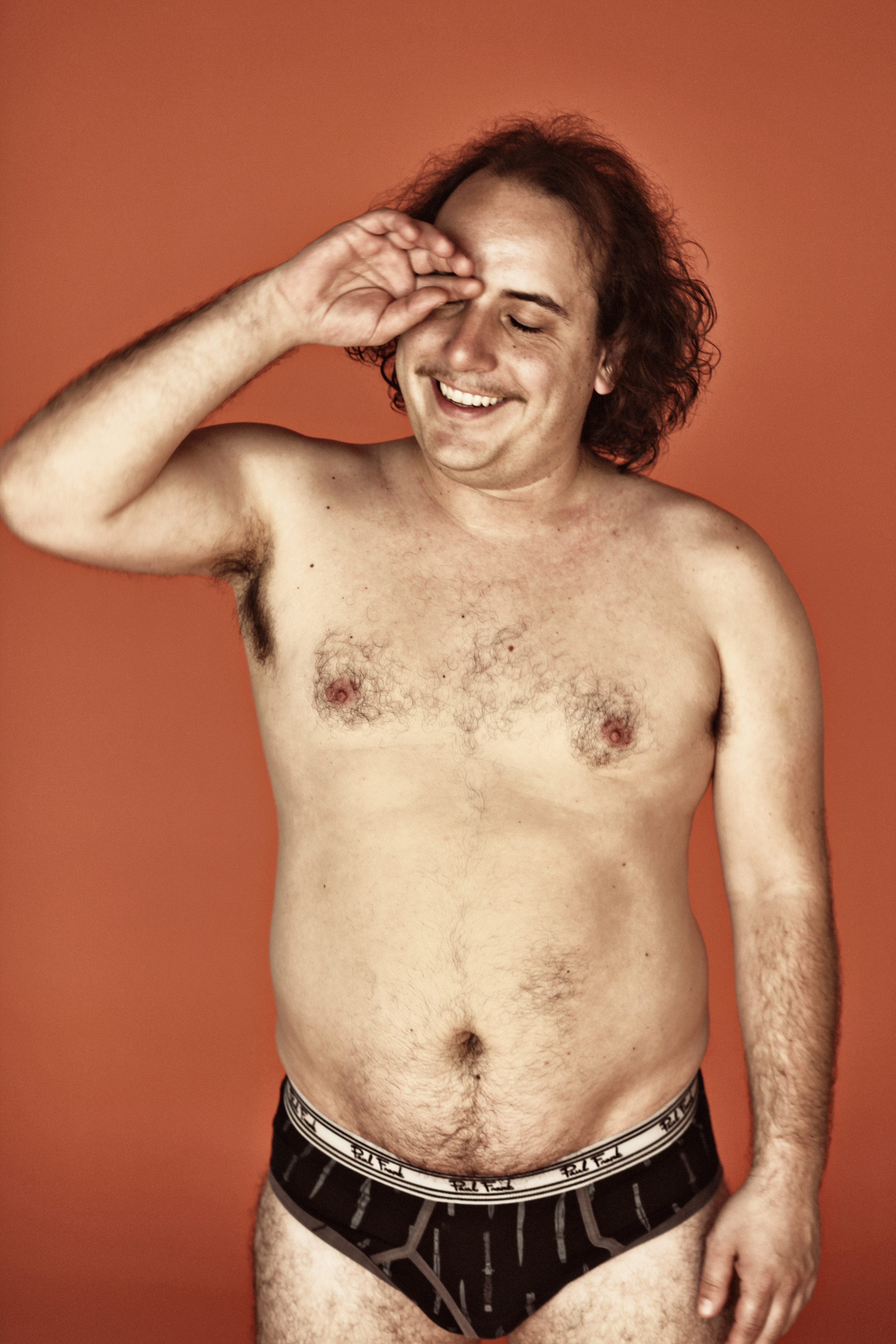 Har Mar Superstar